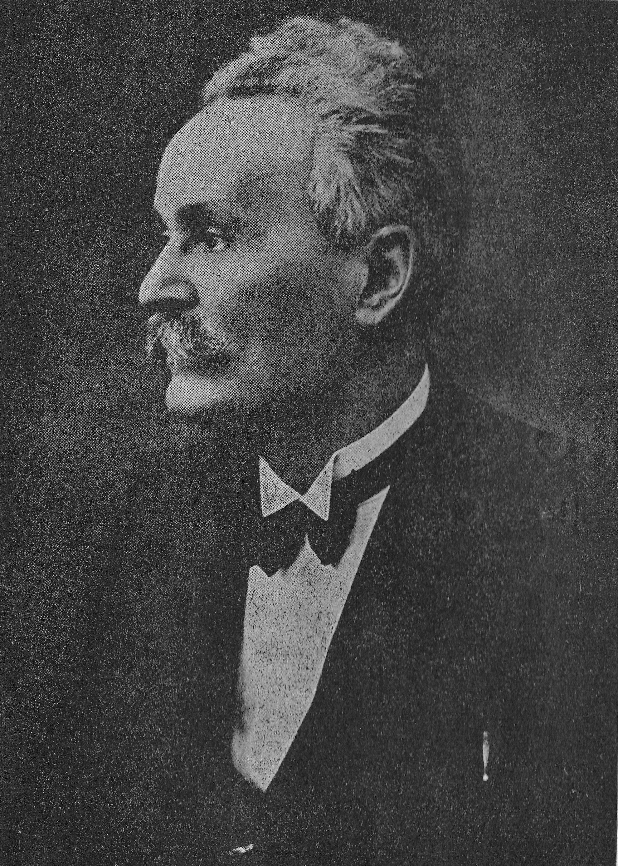 Prof. Dr. Jan Oko